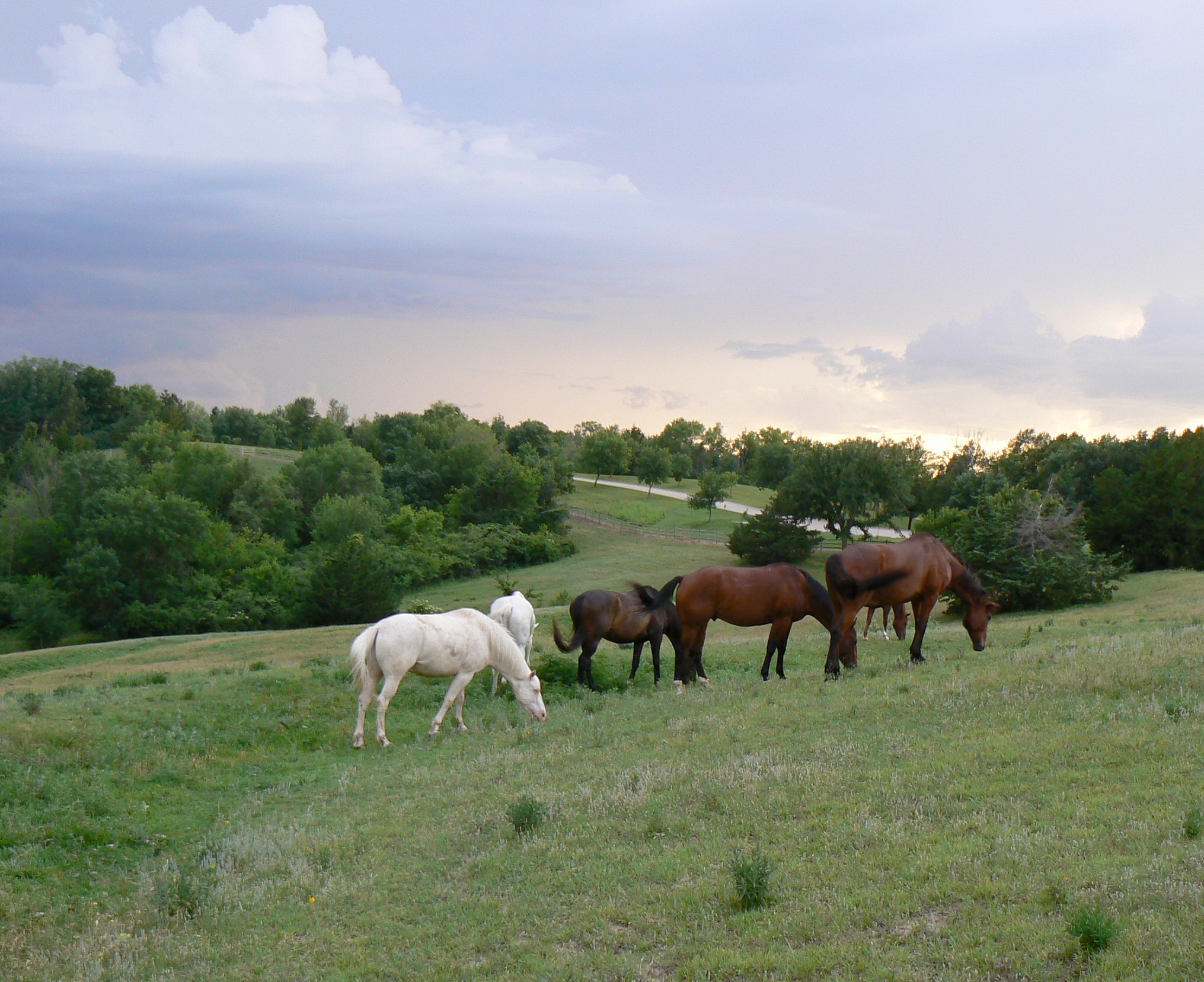 Horses in Cass County Nebraska